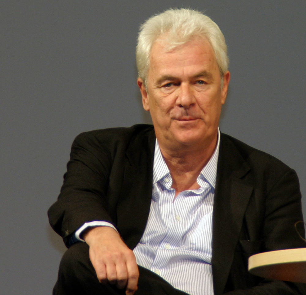 Peter Krämer, German shipping company owner, 2007 in Cologne